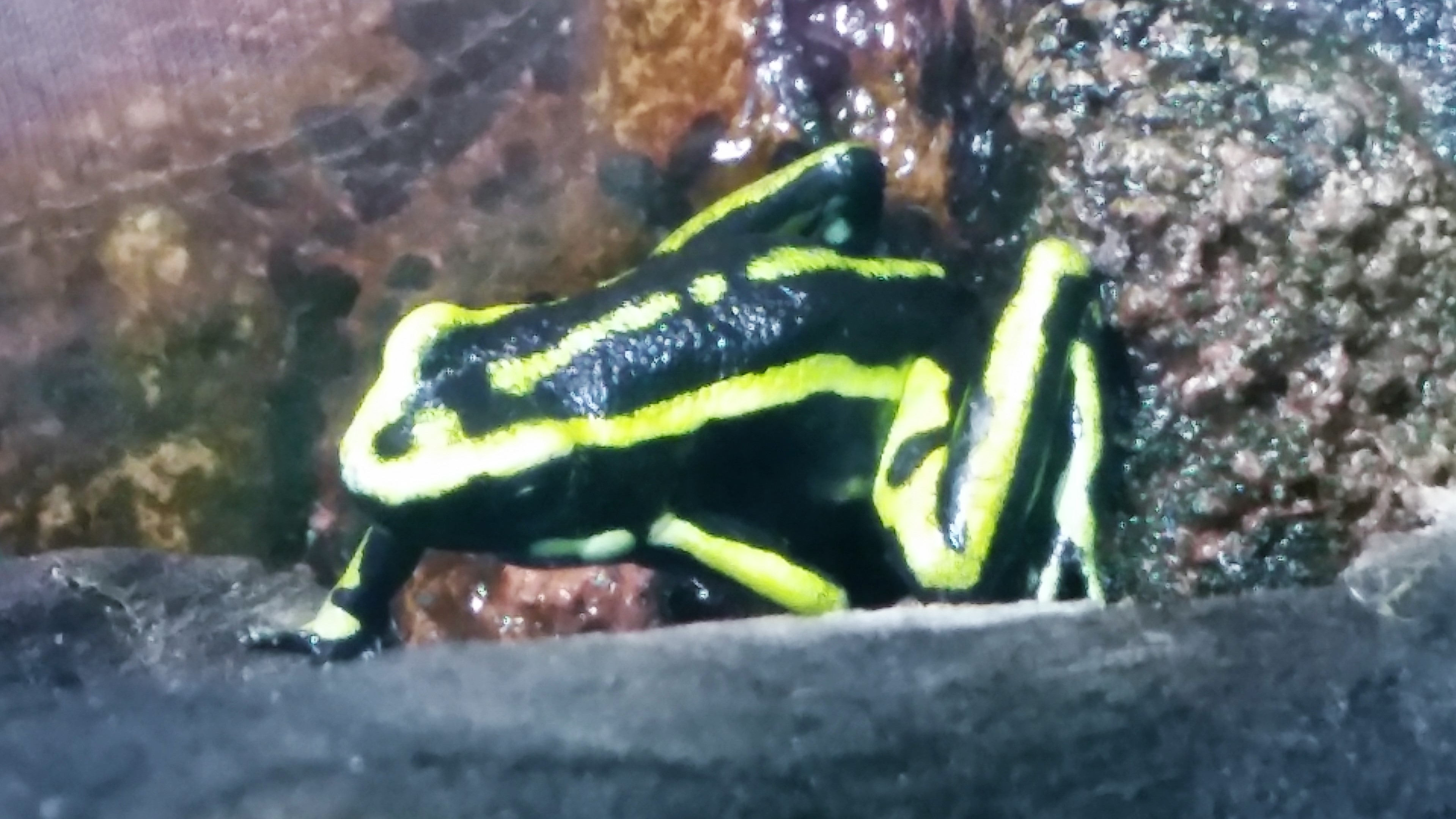 Ameerega trivittata in Southend-on-Sea aquarium, England.